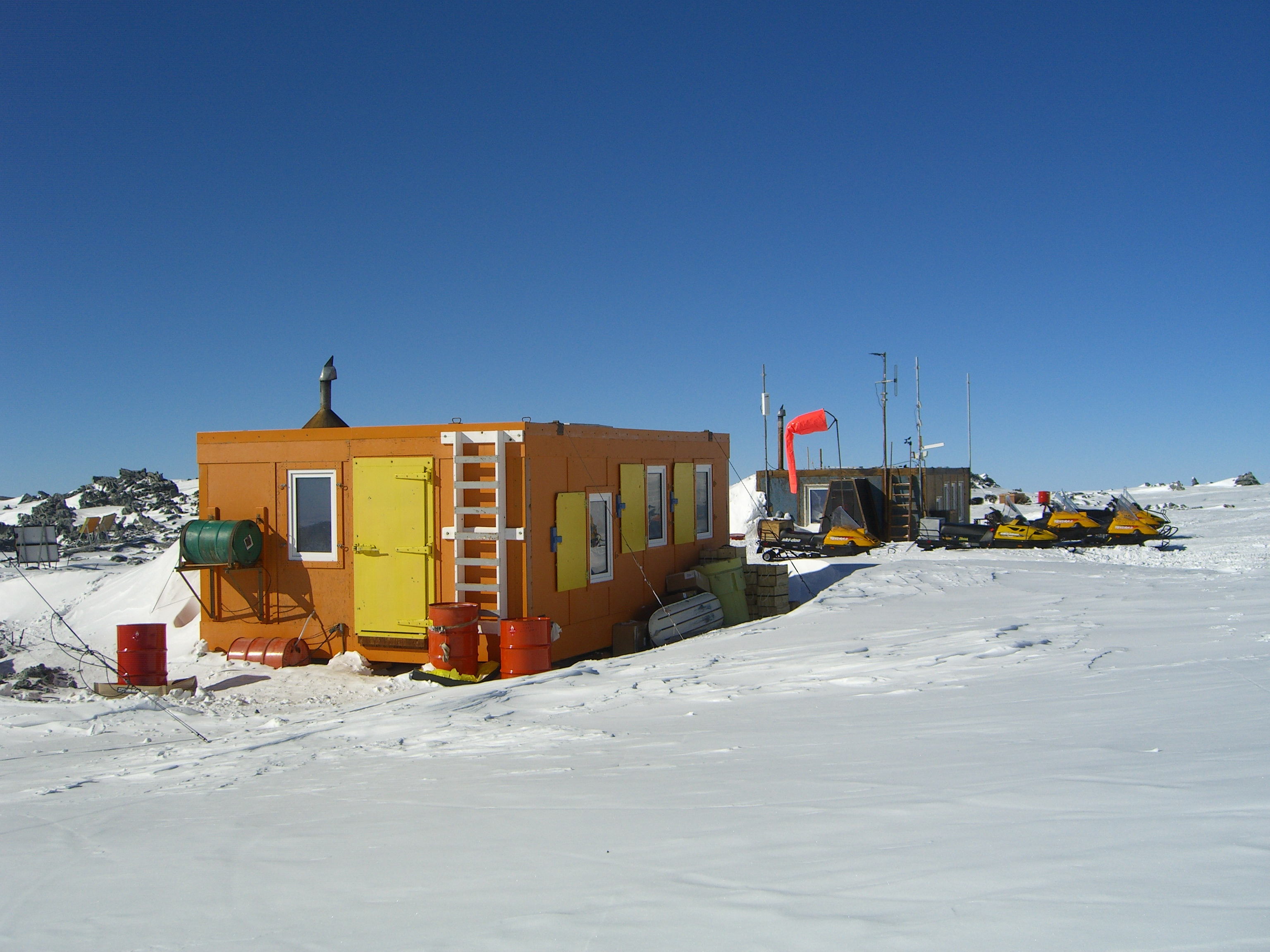 LEH, outside LEH camp, Karen Willianms